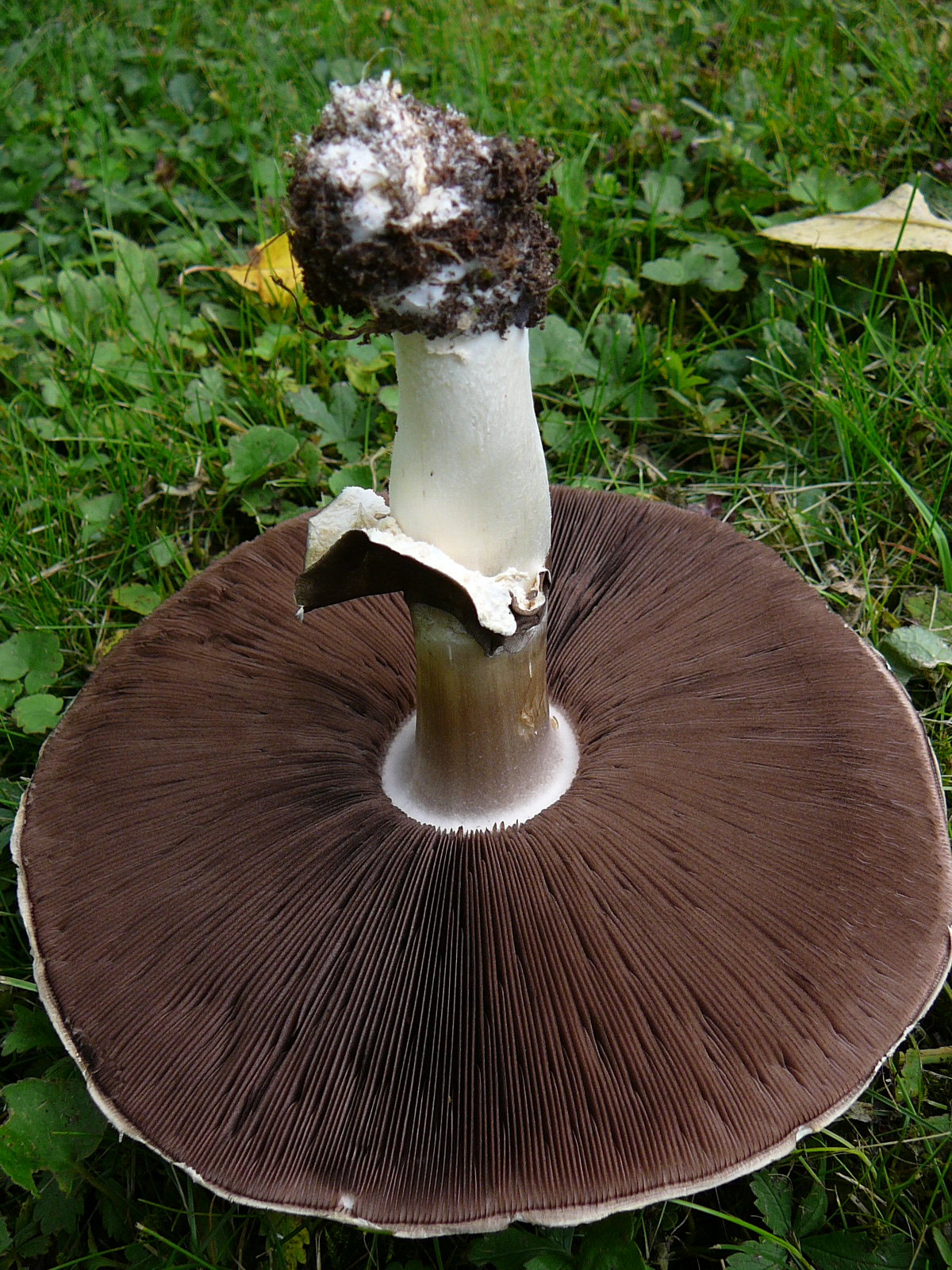 Agaricus arvensis, mature age. Stuttgart, Germany. Found in August on a lawn, around a Maple tree. 15cm of diameter. When cut: smell of anise and cap stay white. Very slow yellowish oxidation of the foot. Ring but no volva. Pinkish lamellas becoming brown as it gets old.